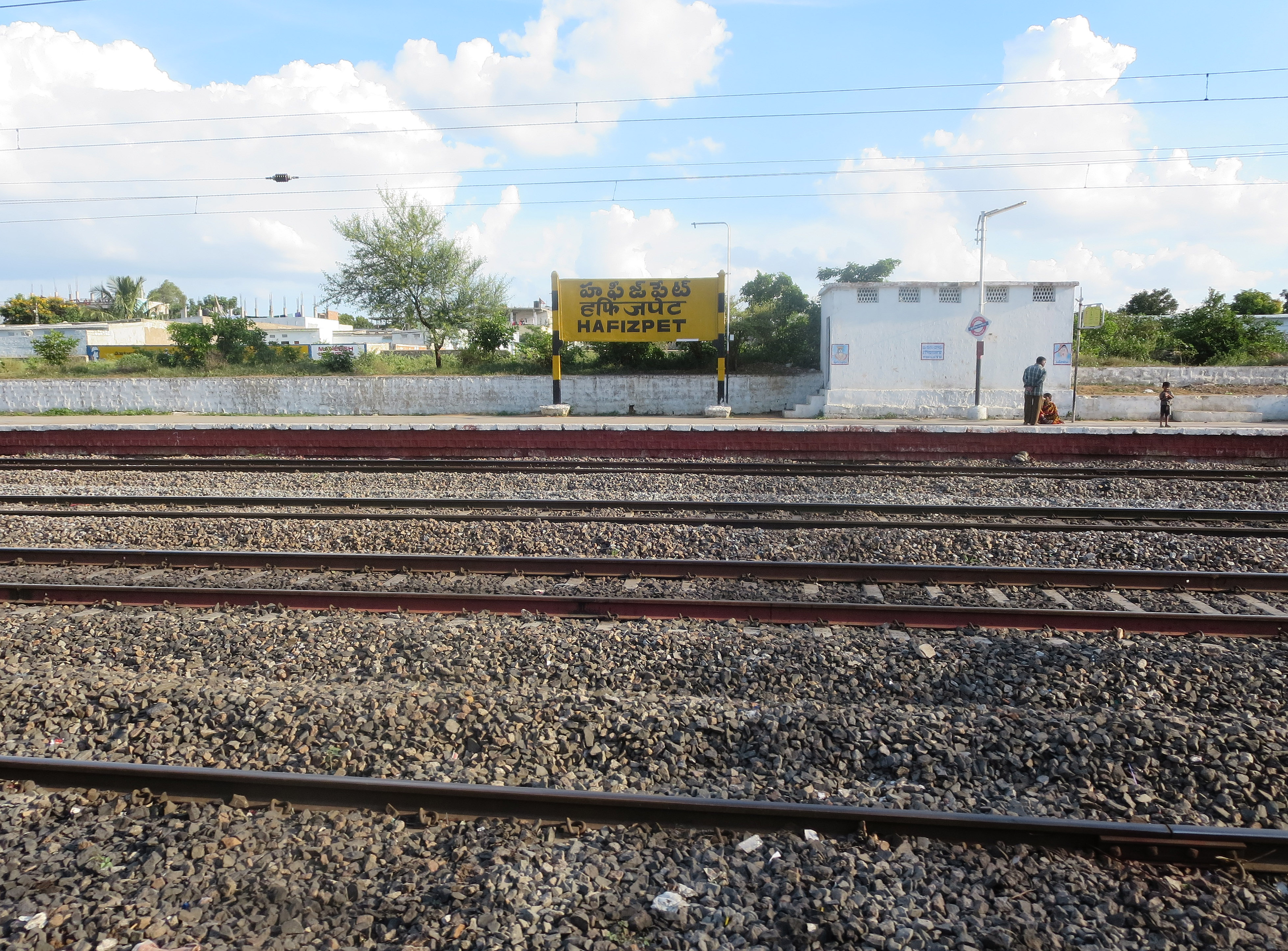 Hafizpet Railway Station, Hyderabad, India